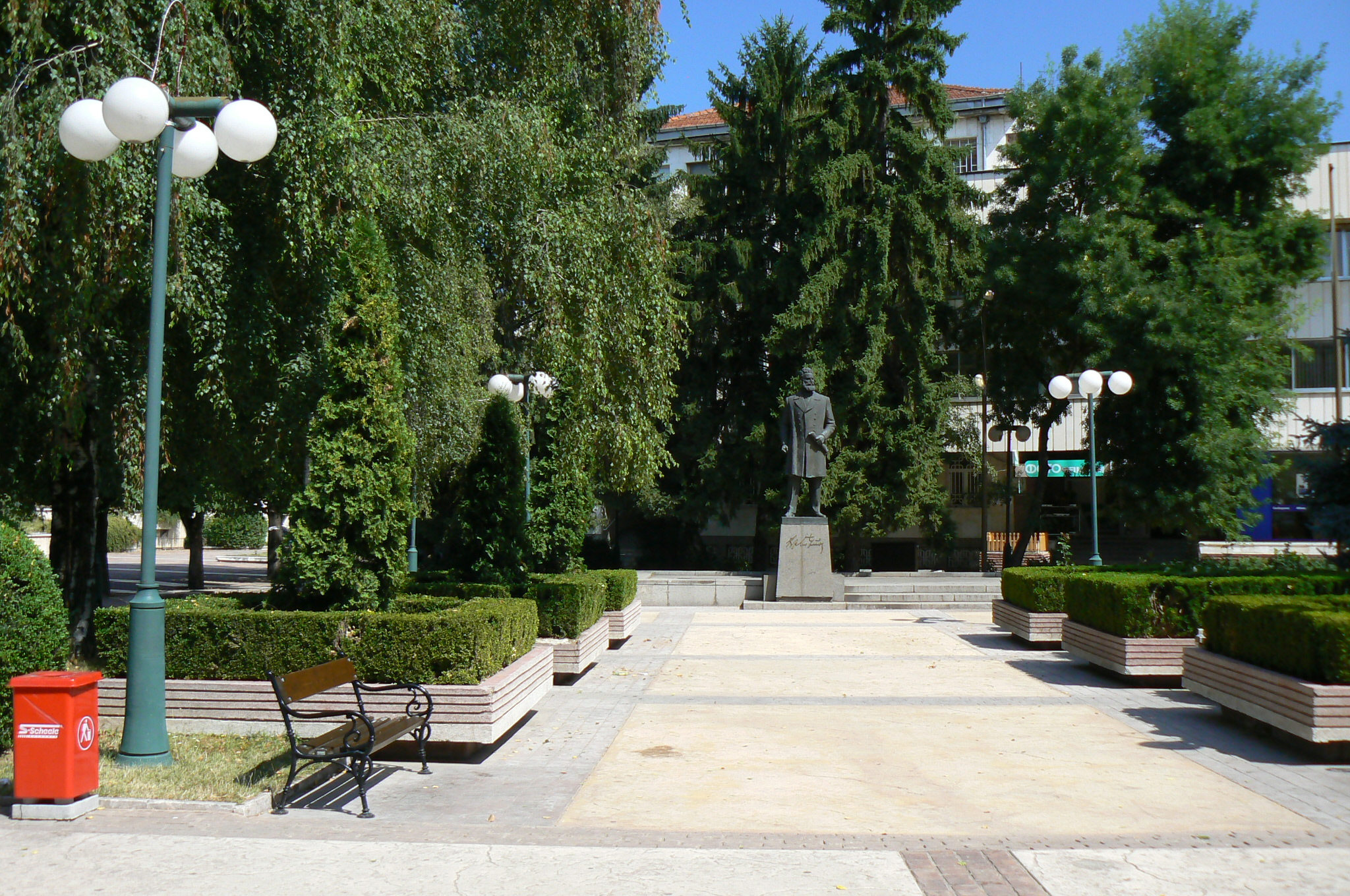 Monument of the poet and revolutionary Hristo Botev. Botevgrad, Bulgaria